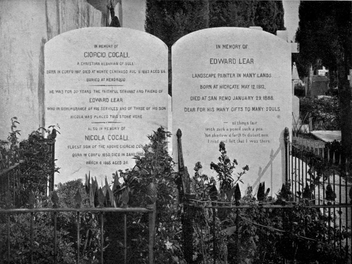 Gravestone of Edward Lear in San Remo